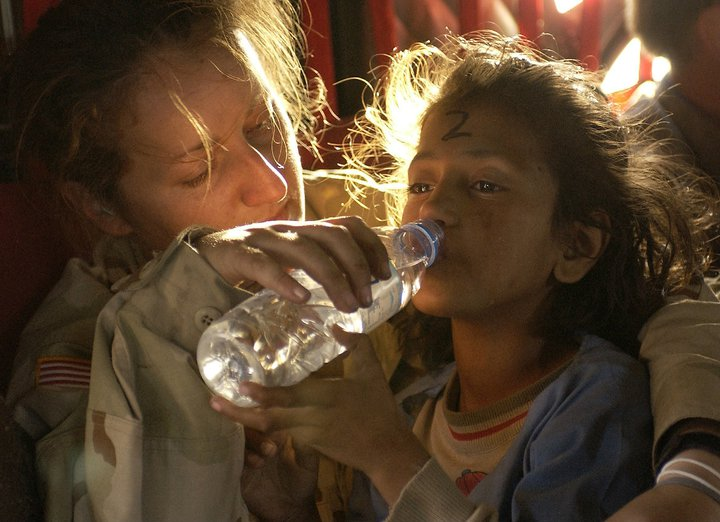 PAKISTAN -- Sgt. Kornelia Rachwal of U.S. Army Europe's Headquarters and Headquarters Company, 12th Aviation Brigade, gives a young Pakistani girl a drink of water as they are airlifted from Muzaffarabad to Islamabad, Pakistan aboard a CH-47 Chinook helicopter, October 19, 2005. V Corps units were among the first to bring aid to Pakistan following a devastating earthquake there October 8. (Photo by Tech. Sgt. Mike Buytas)